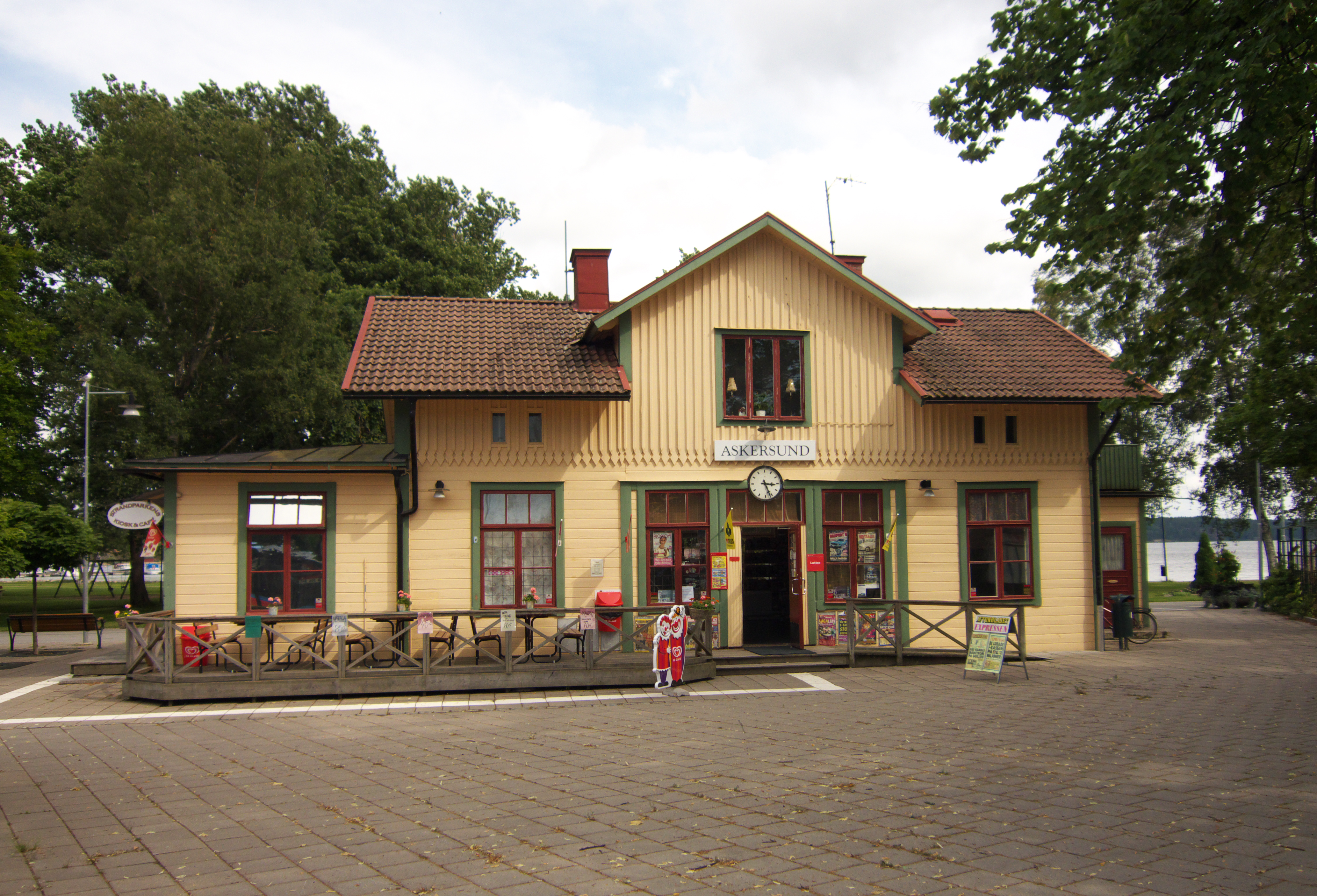 Askersund former railway station - now a café